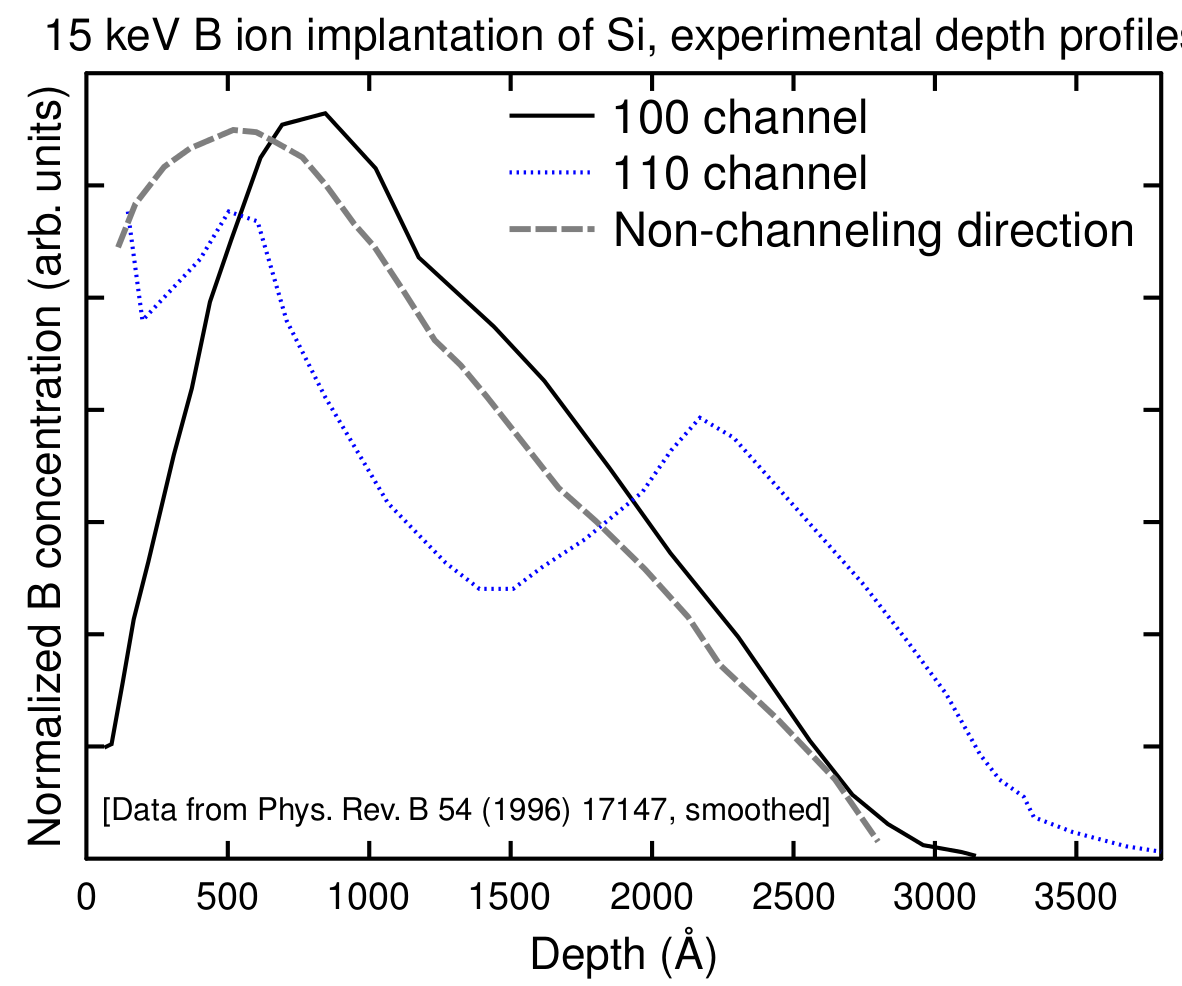 Graph of ion experimental ion ranges in different crystal directions. Data is from Ref. Phys. Rev. B 54 (1996) 17147, scanned in with smoothing for this graph.